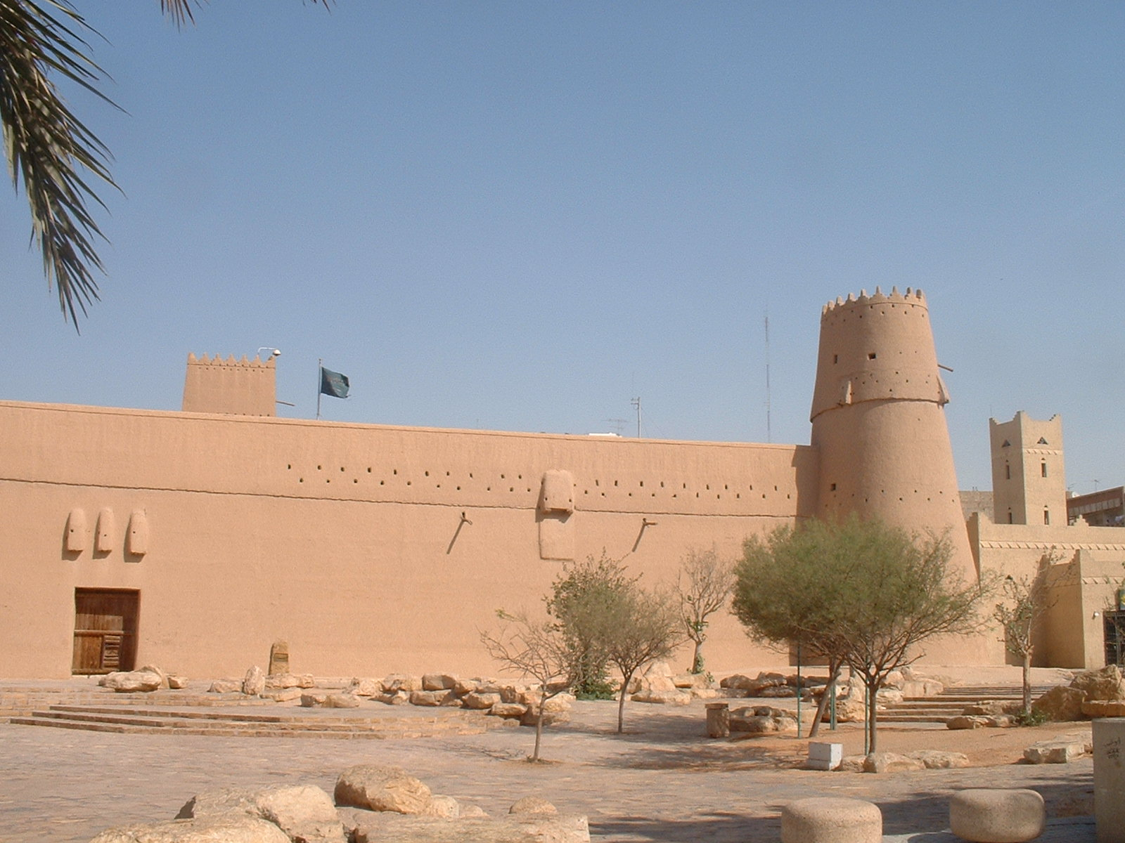 Masmak Castle, entrance wall